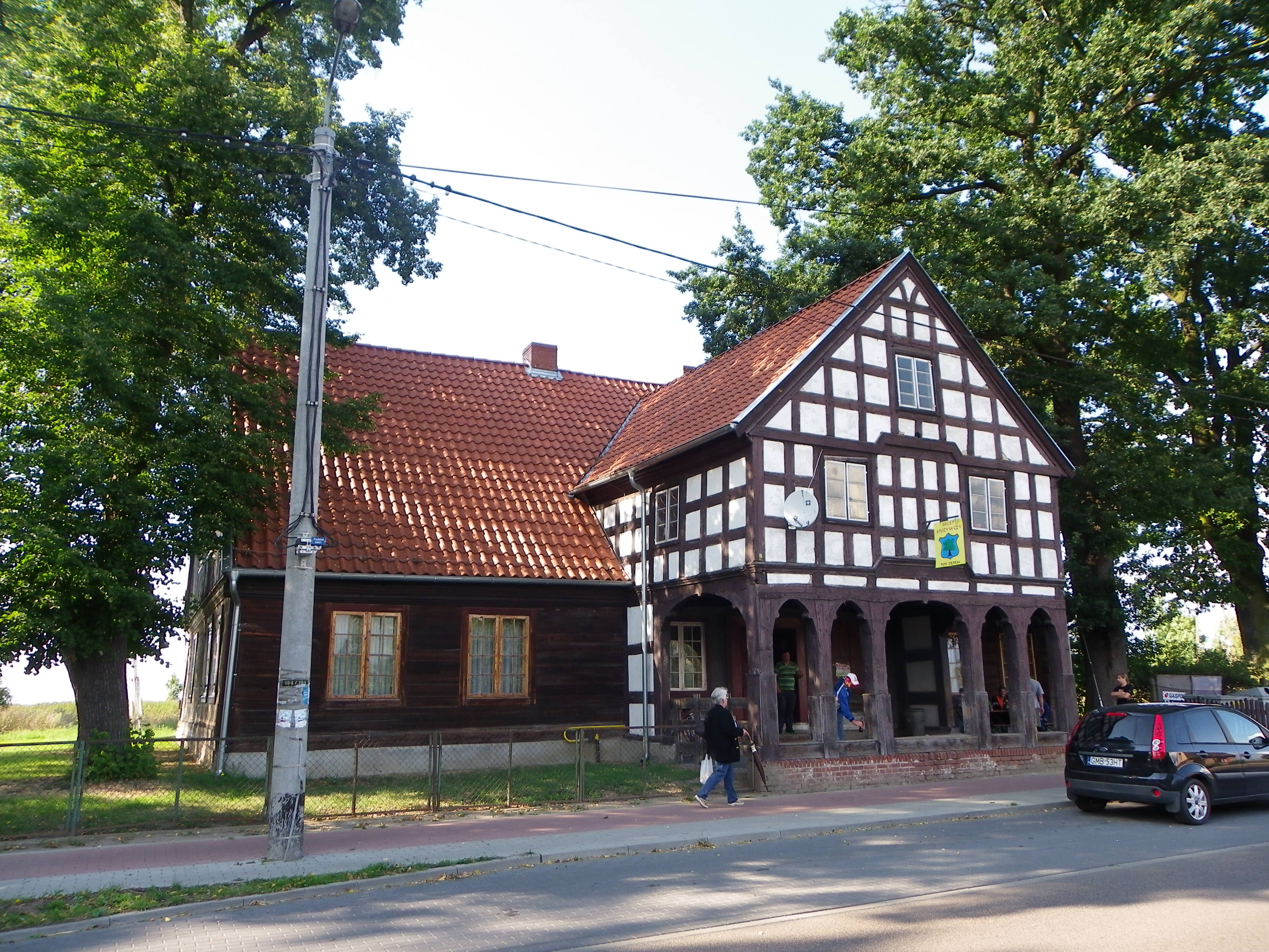 Nowy Staw, Poland - arcaded house from 1820 in Gdańska Street